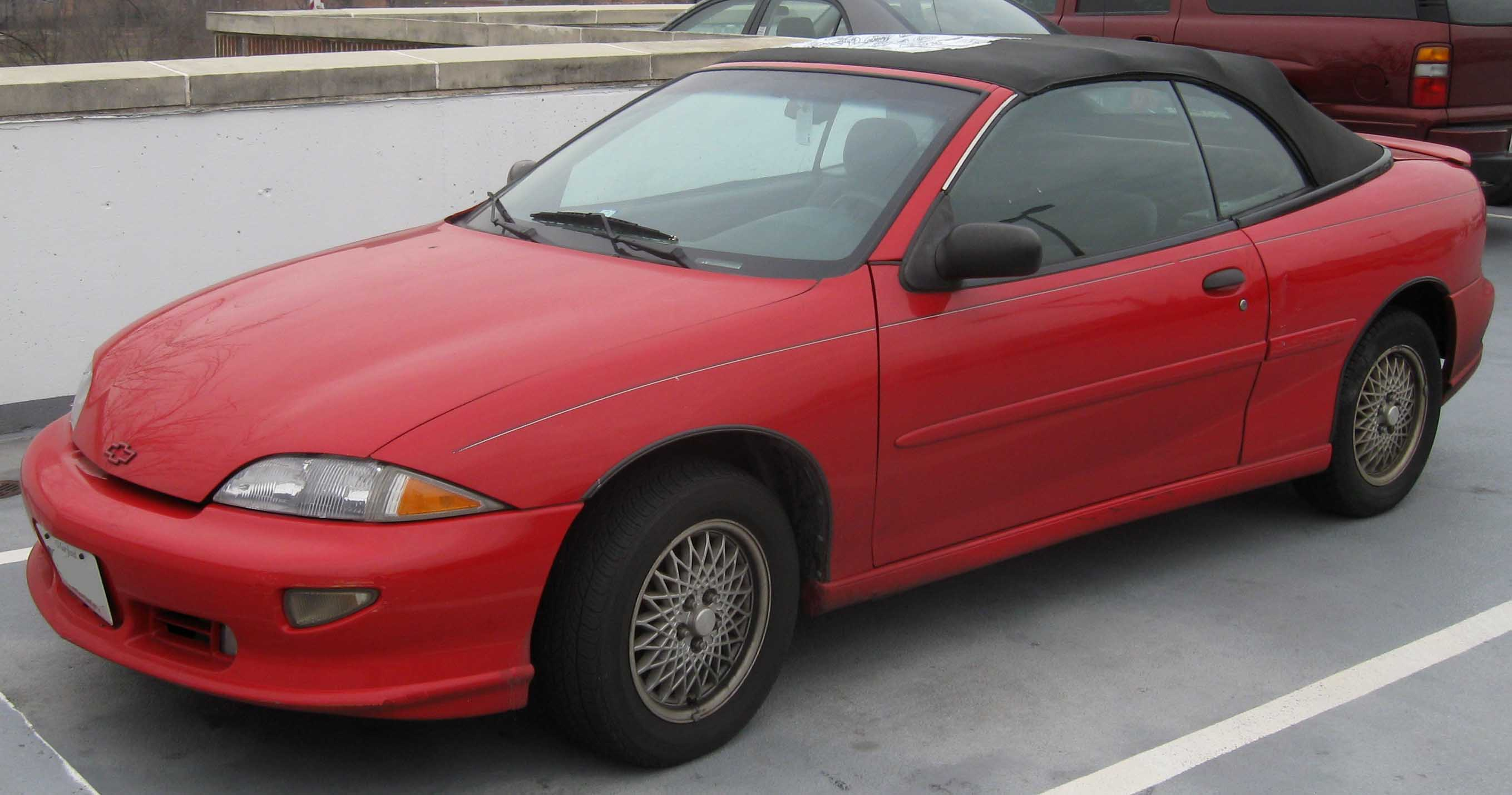 1995-1999 Chevrolet Cavalier photographed in College Park, Maryland, USA.